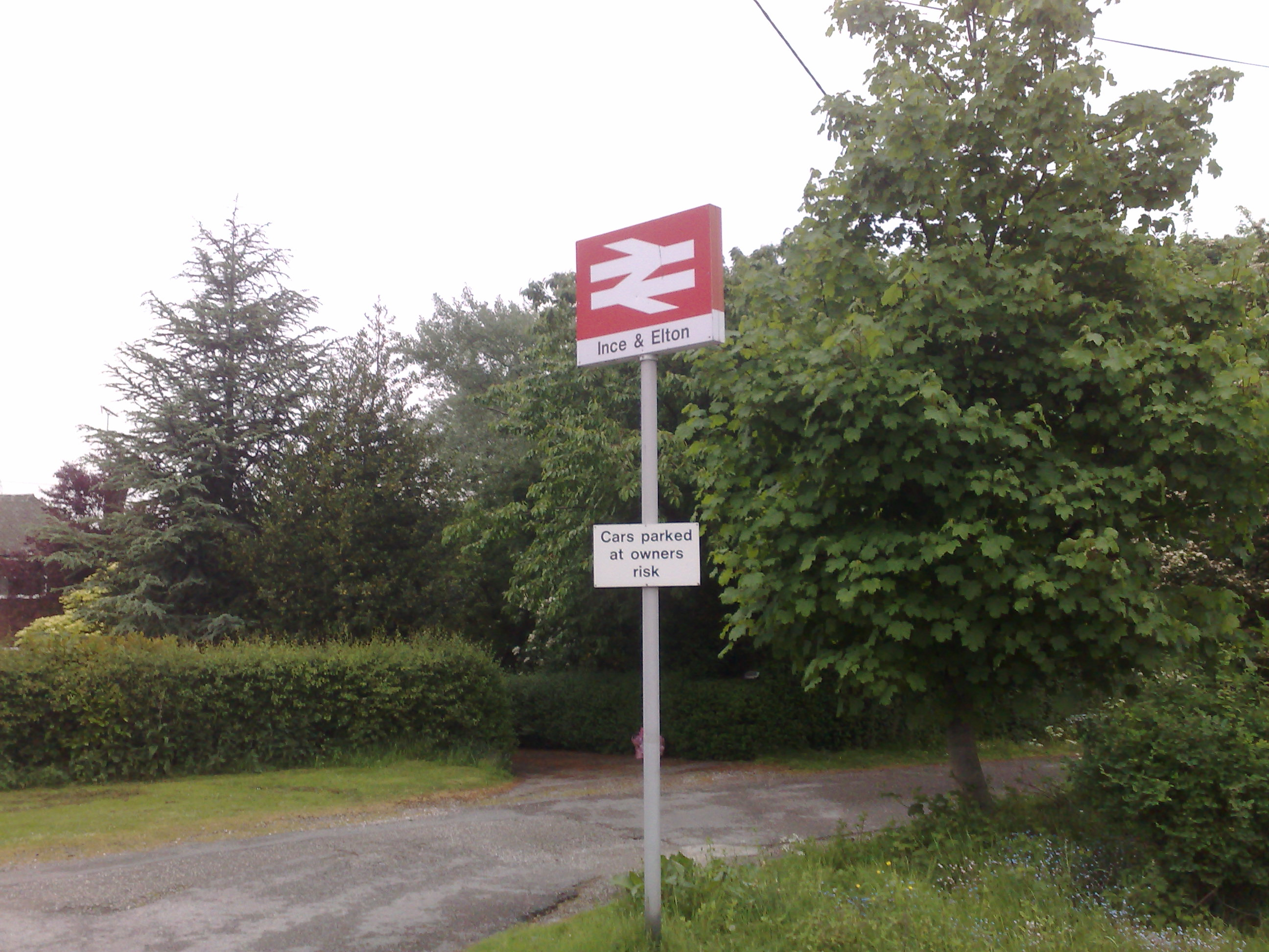 Outside Ince & Elton